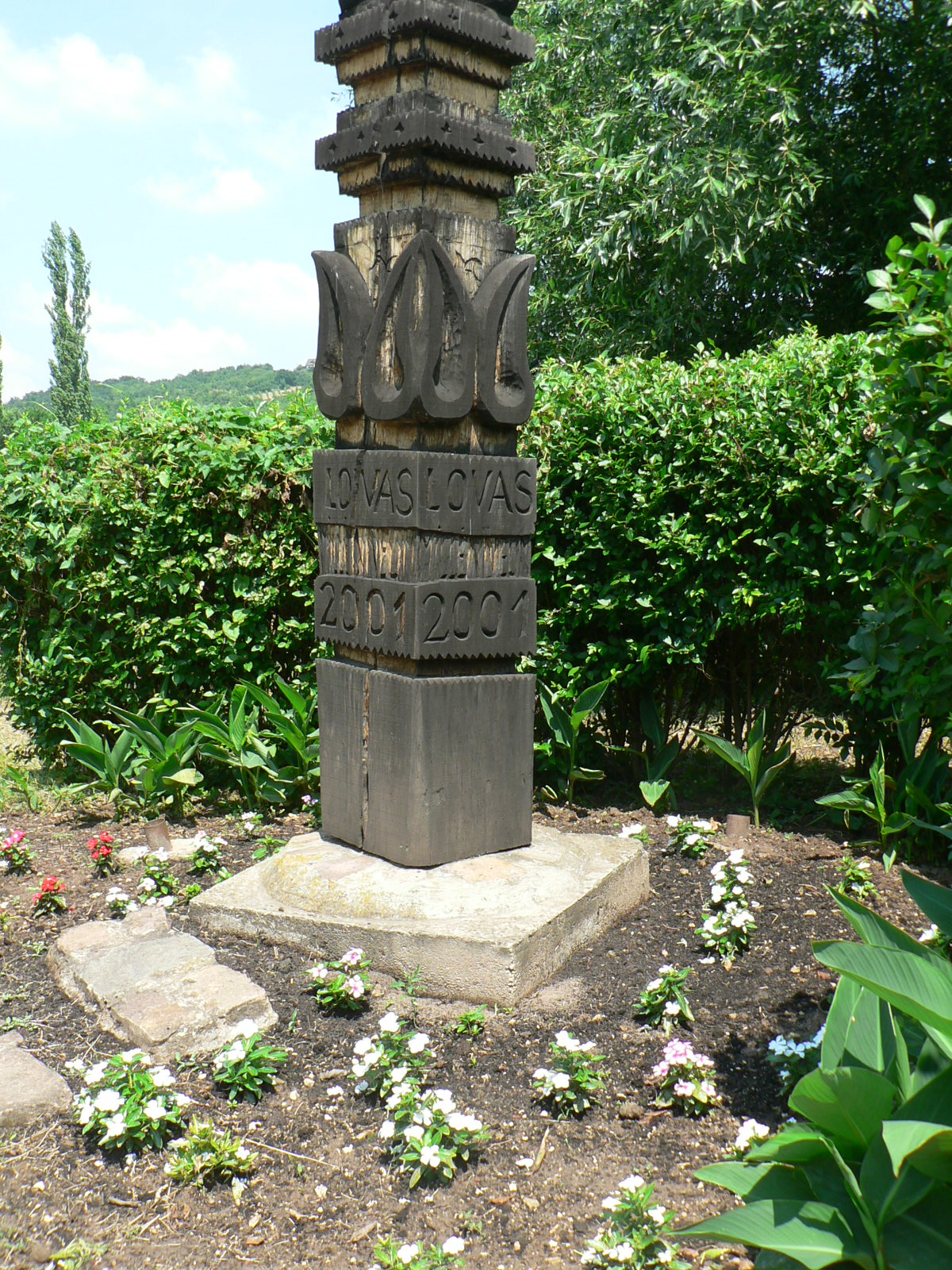 Kopjafa (részlete) a Lovasi-Séd közelében